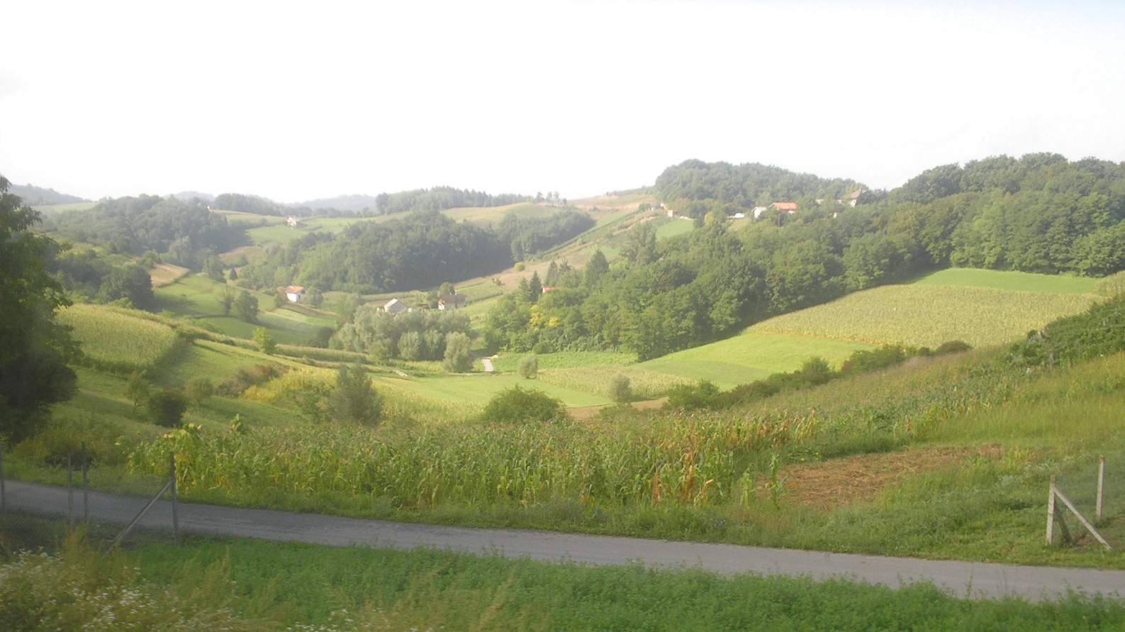 Landscape of Hrvatsko zagorje, Croatia